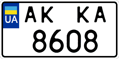 License plate of Ukraine for vehicles with american type place for plate. Version of 2015